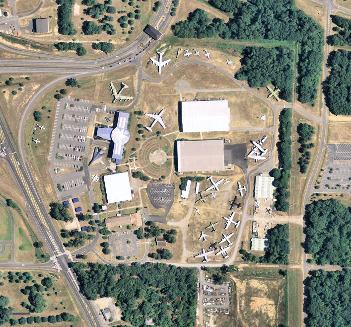 USGS Orthophoto of the Museum of Aviation - Robins AFB GA